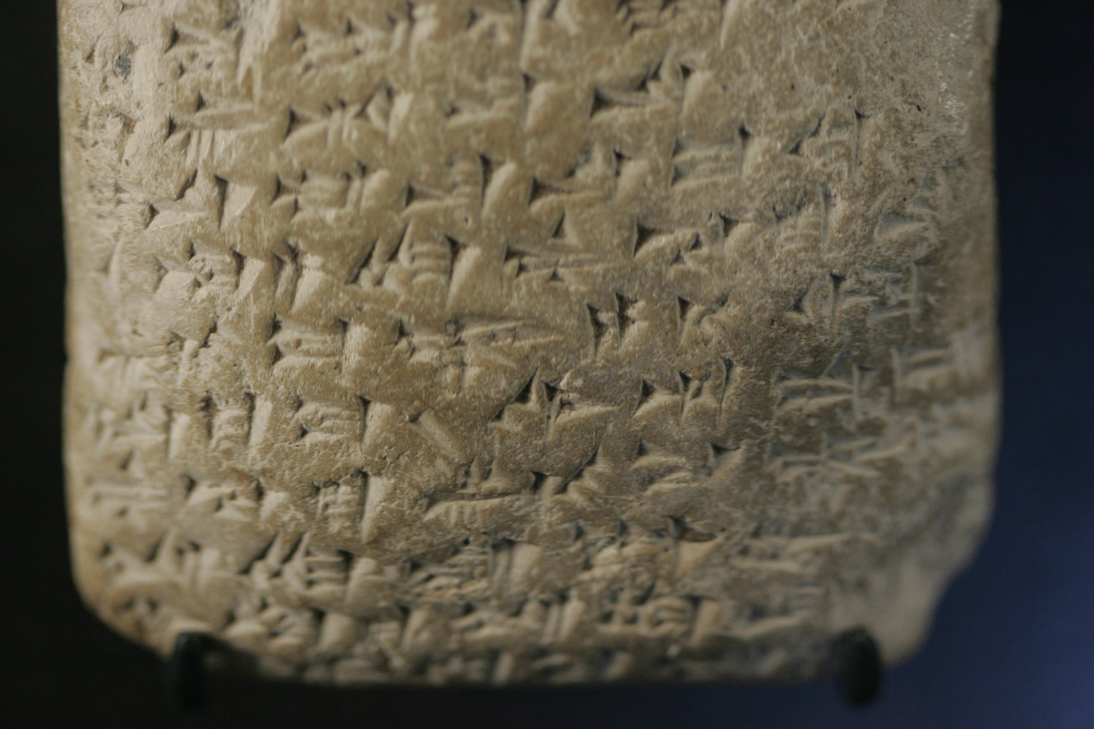 Amarna Letters Letter of Biridiya, prince of Megiddo, to the king of Egypt; subject of harvesting by corvee workers in the city of Nuribta. Terra cotta Current location Louvre Museum (Inventory)Native nameMusée du LouvreLocationParisCoordinates48° 51′ 37″ N, 2° 20′ 15″ E Established1793Web page control : Q19675 VIAF: 257711507 ISNI: 0000 0001 2260 177X ULAN: 500125189 LCCN: n80020283 NLA: 35912436 WorldCat Sully, Rez-de-chaussée, Levant, Salle D, Vitrine 4 : L'âge du bronze récent 1550 - 1150 avant J.-C.Accession numberAO 7098. Also known as EA 365.Credit lineAcquired in 1918Referenceslouvre.frSource/PhotographerRama